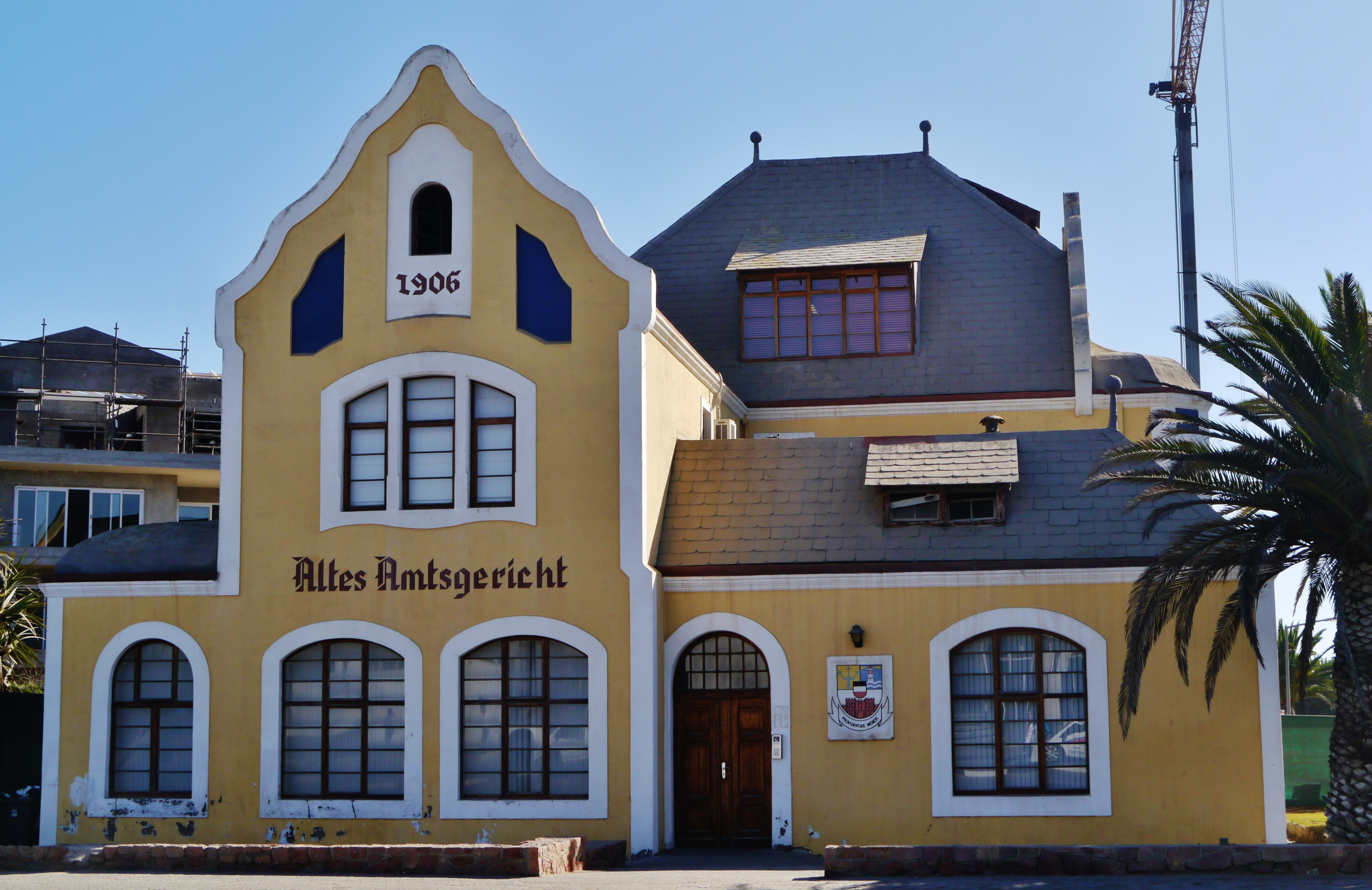 Old District Court Building, Swakopmund, Region of Erongo, Namibia